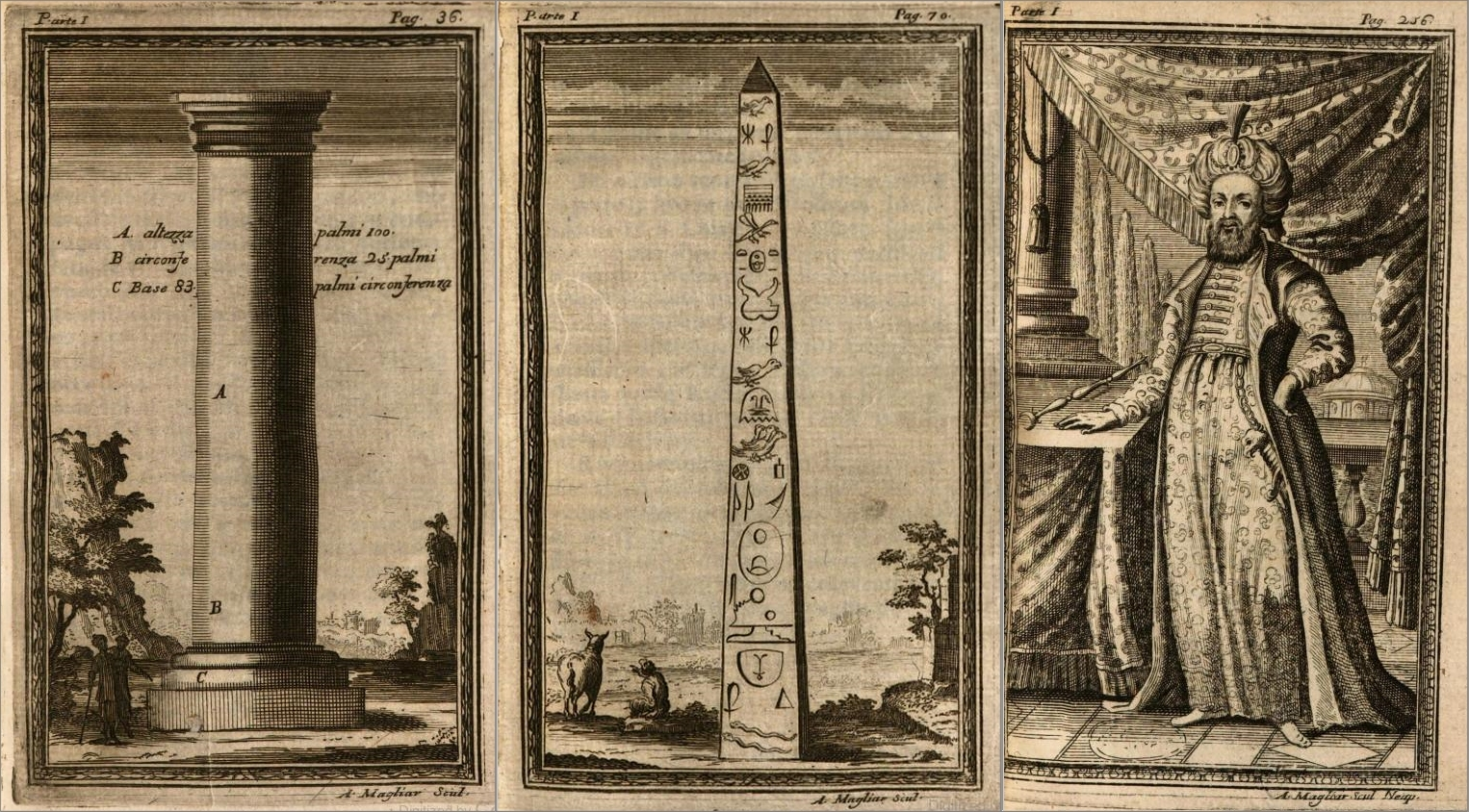 Artwork from Giro Del Mondo (1699, Naples: Original Italian Version)